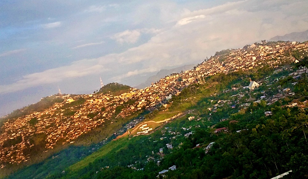 Mokokchung, Nagaland, India (photo by Jim Ankan Deka)